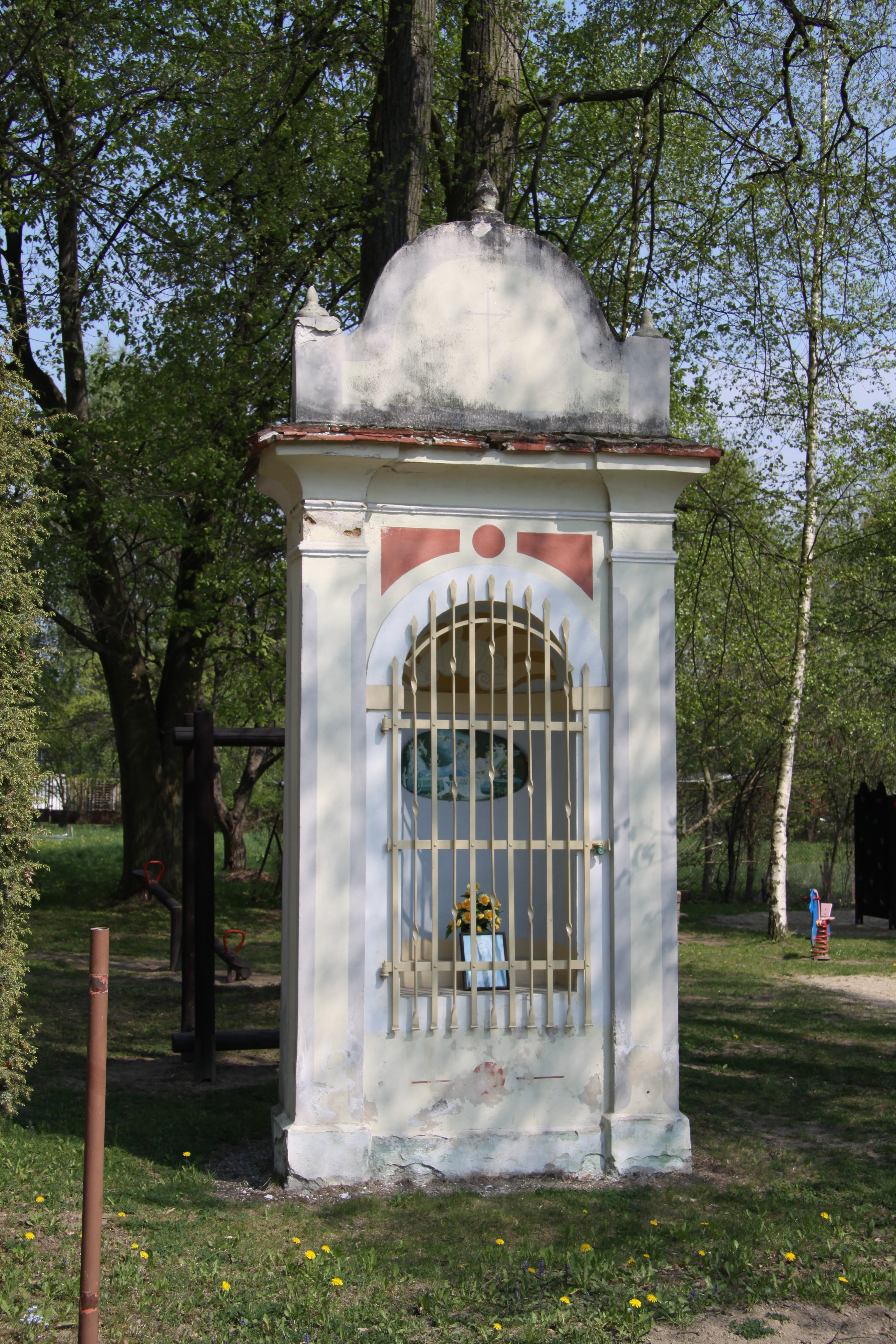 Small chapel, Libějovice village, Strakonice District, Czech Republic